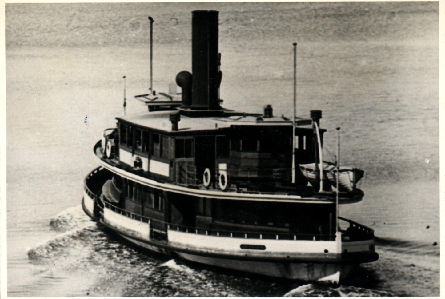 Sydney Ferry LADY SCOTT as a steamer on Lane Cove River 1920s Graeme Andrews, LADY SCOTT.SS. on Lane Cove. River.c.1920 (//), [A-00080534]. City of Sydney Archives, accessed 29 Mar 2020